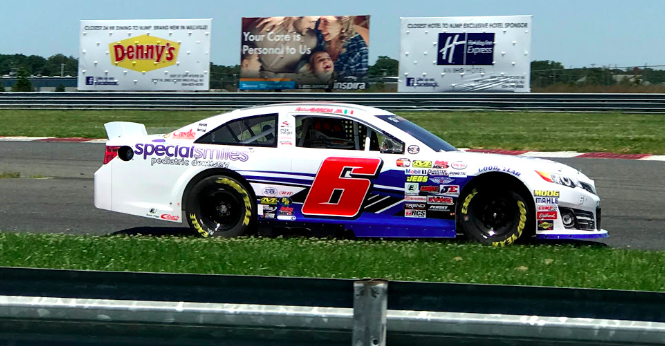 Ruben Garcia Jr. on track at New Jersey Motorsports Park in 2018